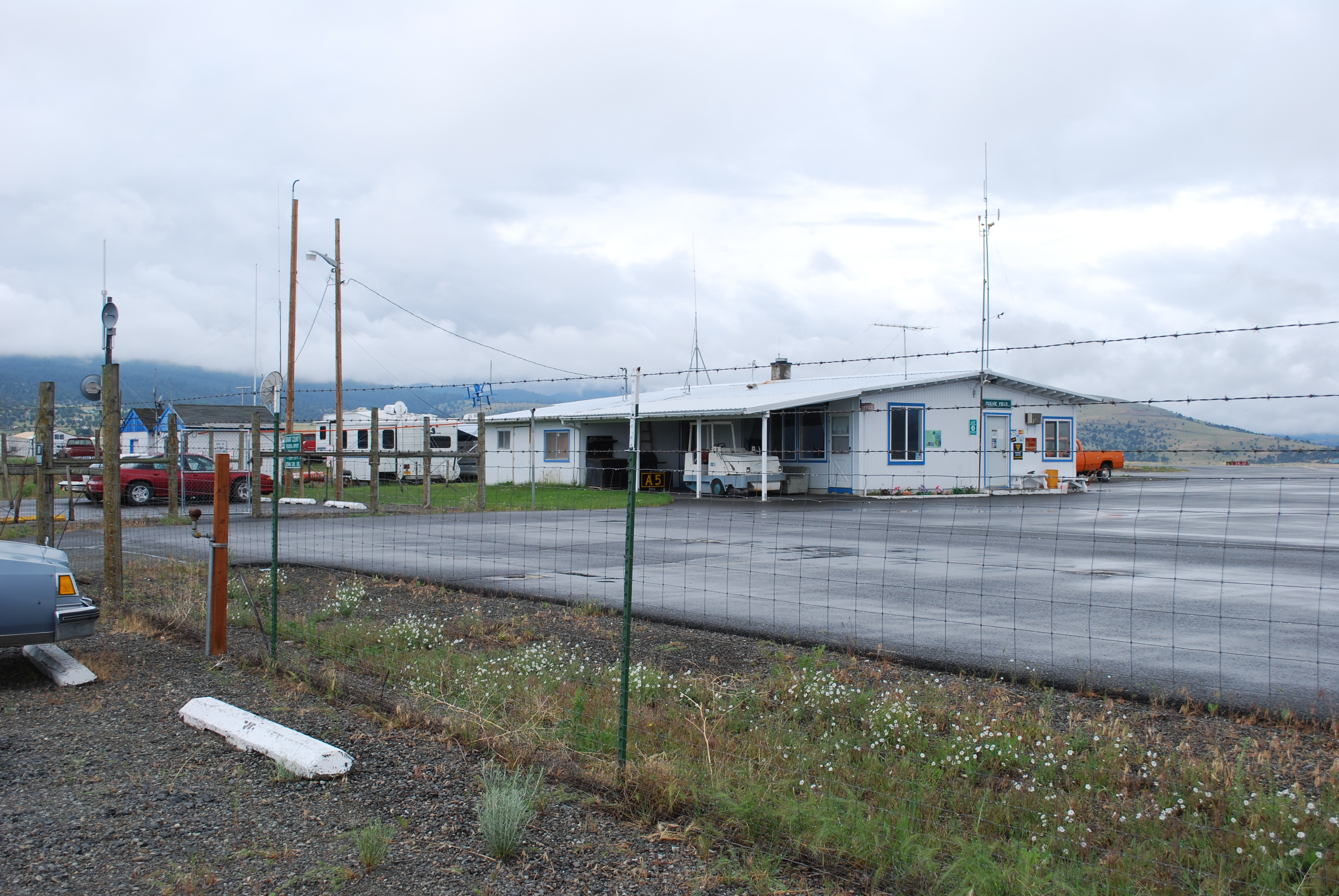 Former terminal at the Grant County Regional Airport near John Day, Oregon